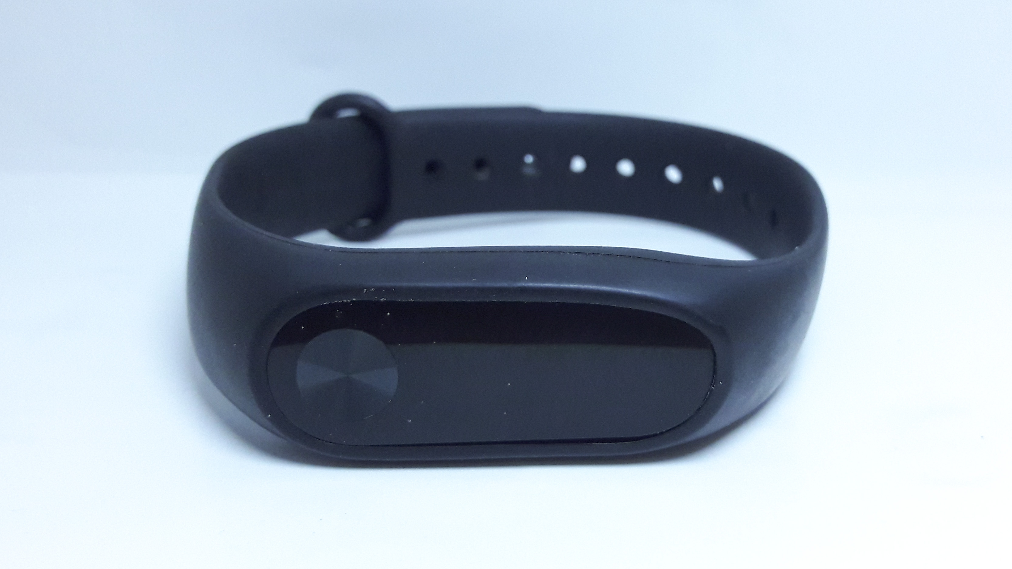 The Xiaomi Mi Band 2 is a wearable activity tracker produced by Xiaomi. Xiaomi Mi Band 2 was unveiled during a Xiaomi launch event on 2 June 2016.